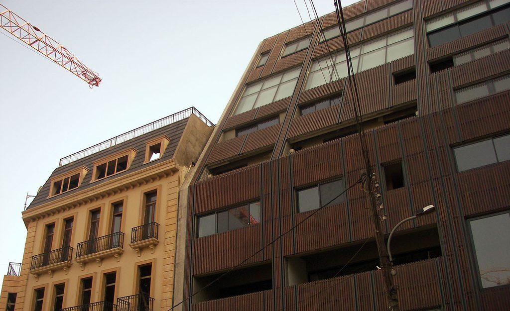 New residential building in the beautiful Gemmayze district